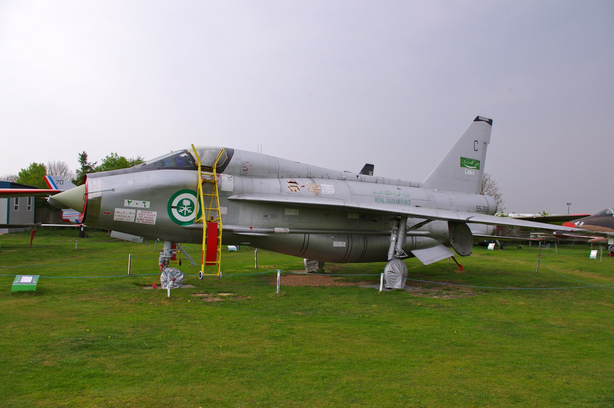 Midland Air Museum, Coventry